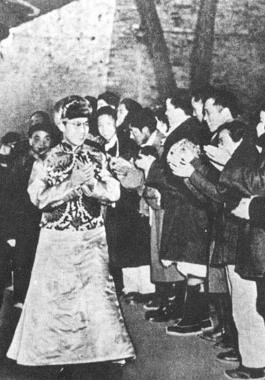 14th Dalai Lama (centre right) greeting Deng Xiaoping (far left), 1954